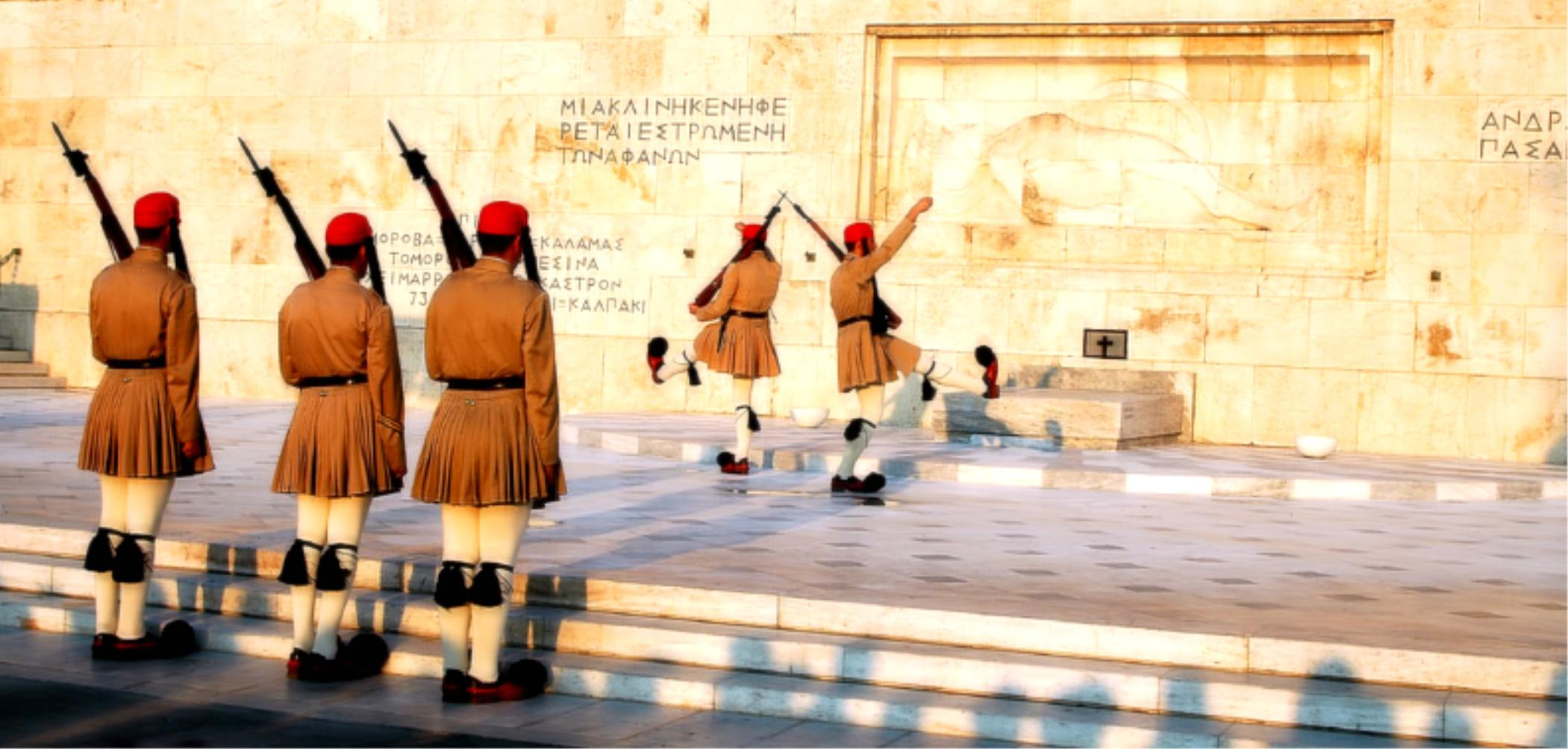 Evzones at the Tomb of the Unknown Soldier, Hellenic Parliament, Athens, Greece. The sculpture is of a Greek soldier and the inscriptions are excerpts from the Funeral Oration of Pericles, 430 B.C. in honour of Athenians slain in the Peloponnesian War.